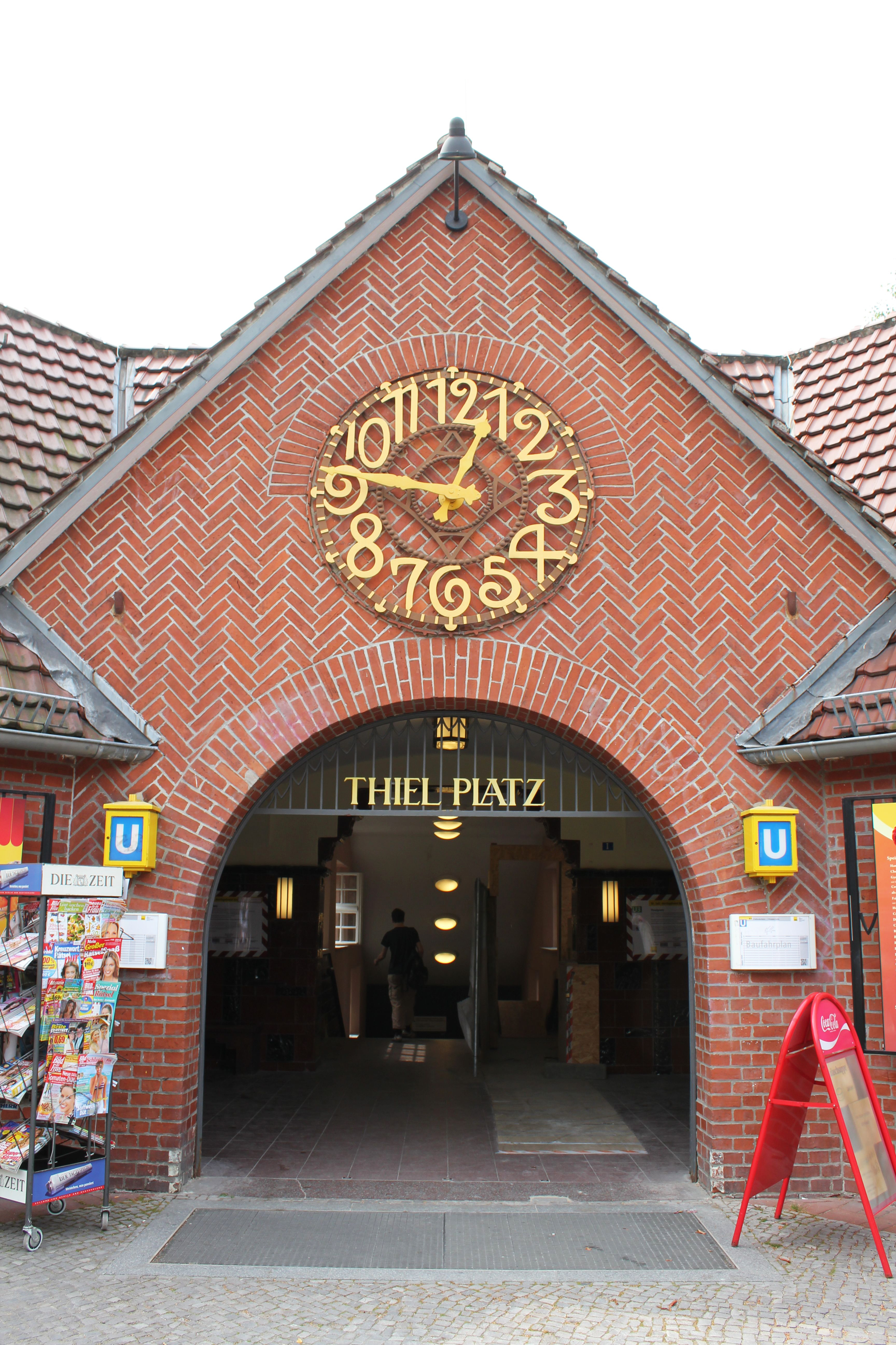 U-Bahnhof Thielplatz